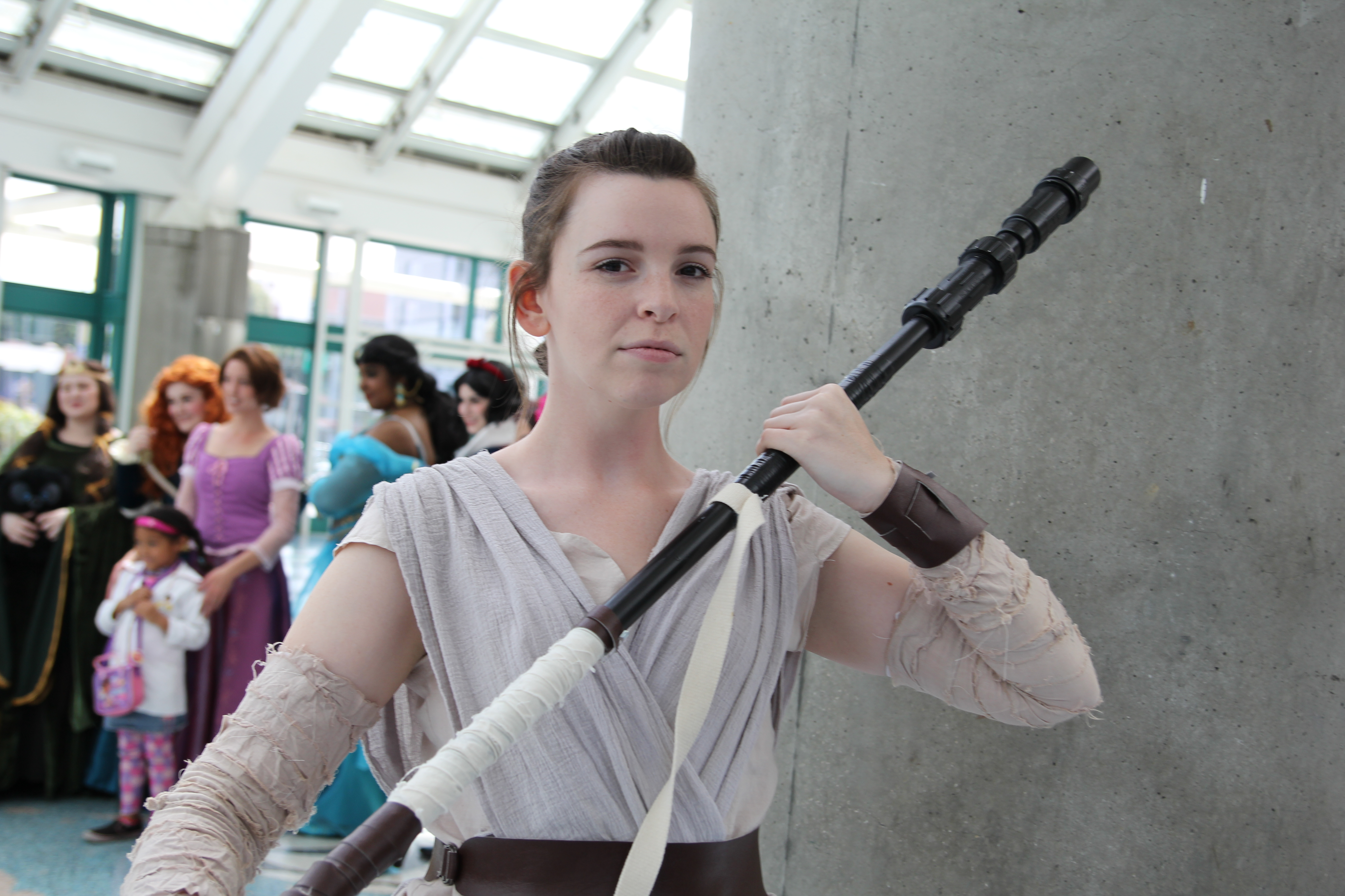 Wondercon 2016 - Rey Cosplay Cosplay at WonderCon 2016.